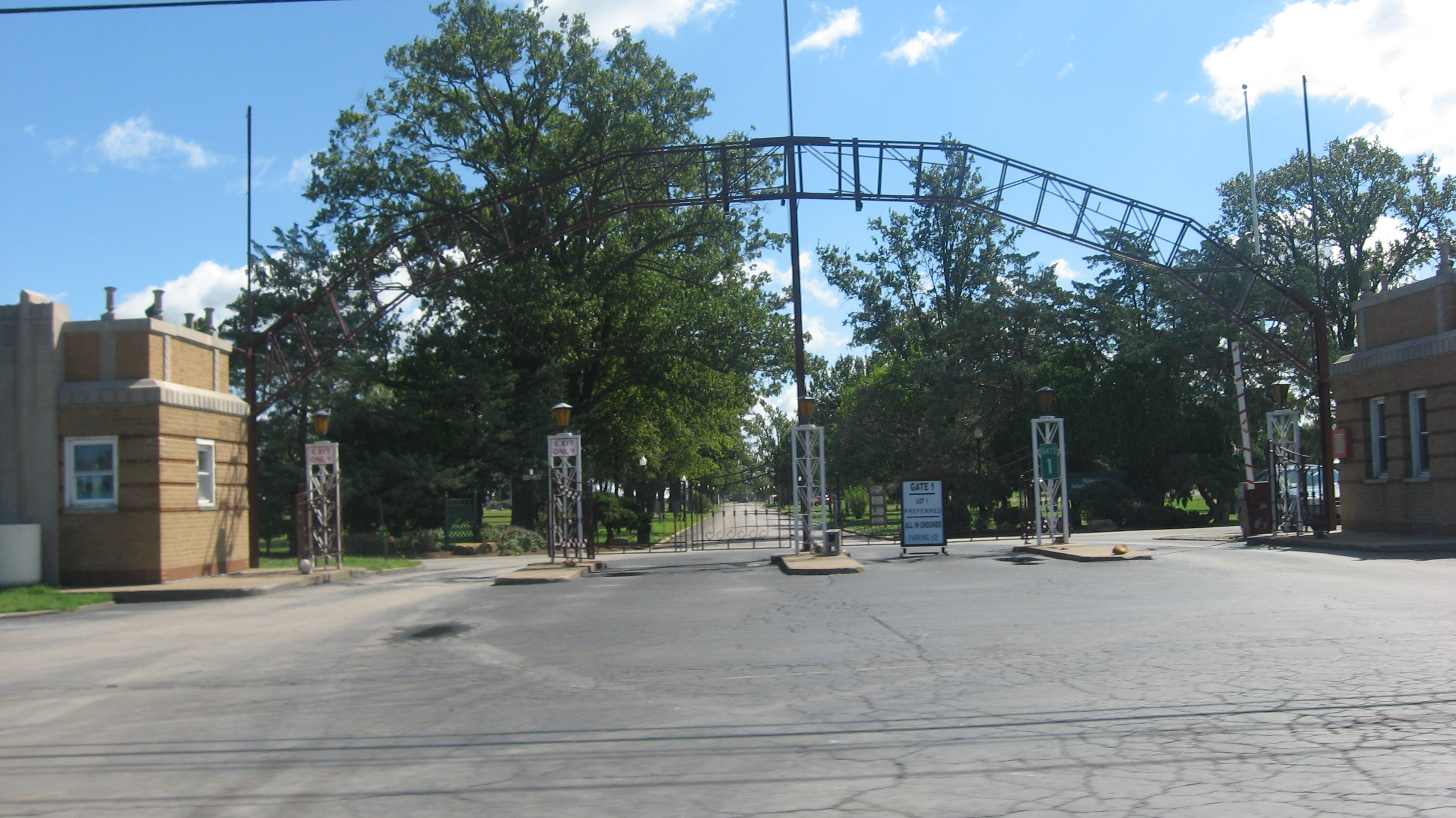 Entrance to the Du Quoin State Fairgrounds, located along U.S. Route 51 on the far southern side of Du Quoin, Illinois, United States. The fairgrounds complex is a historic district that is listed on the National Register of Historic Places.